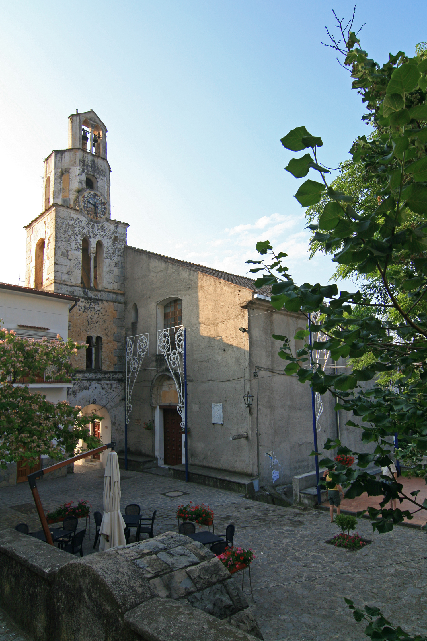 Saint John the Baptist church in Pontone, Scala, Italy.